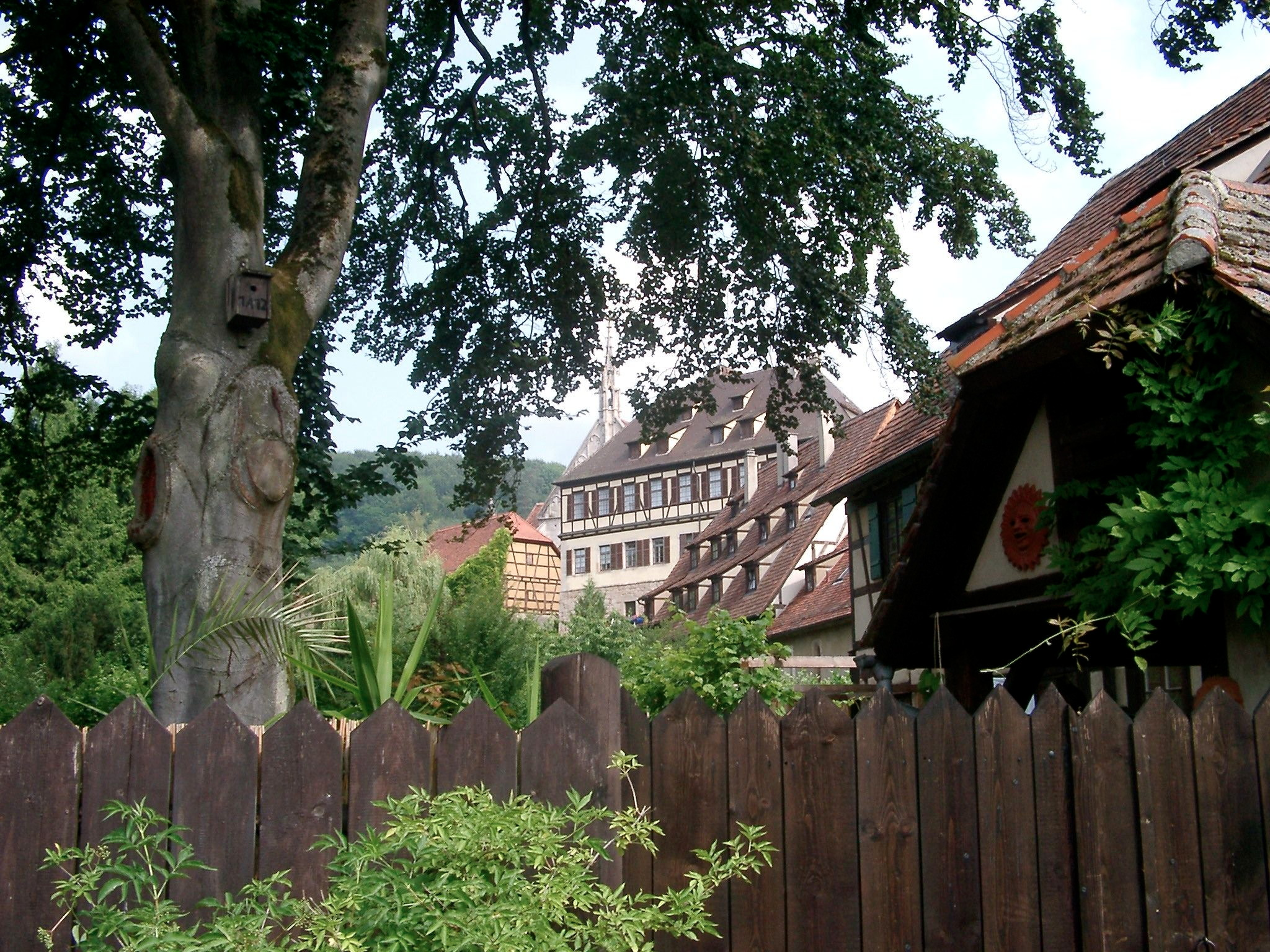 Bebenhausen